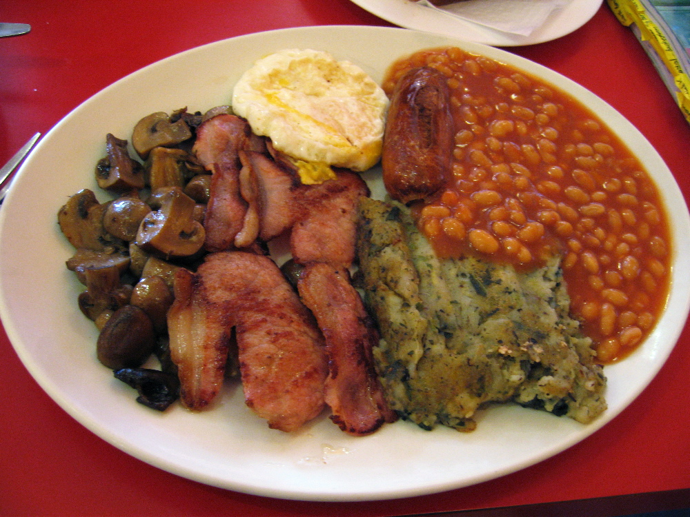 Traditionally the English like to put the baked beans on their toast. I liked that but I was less crazy about the "bubbles & squeak" --some kind of seasoned potato mash. I bet this is good for hangovers.